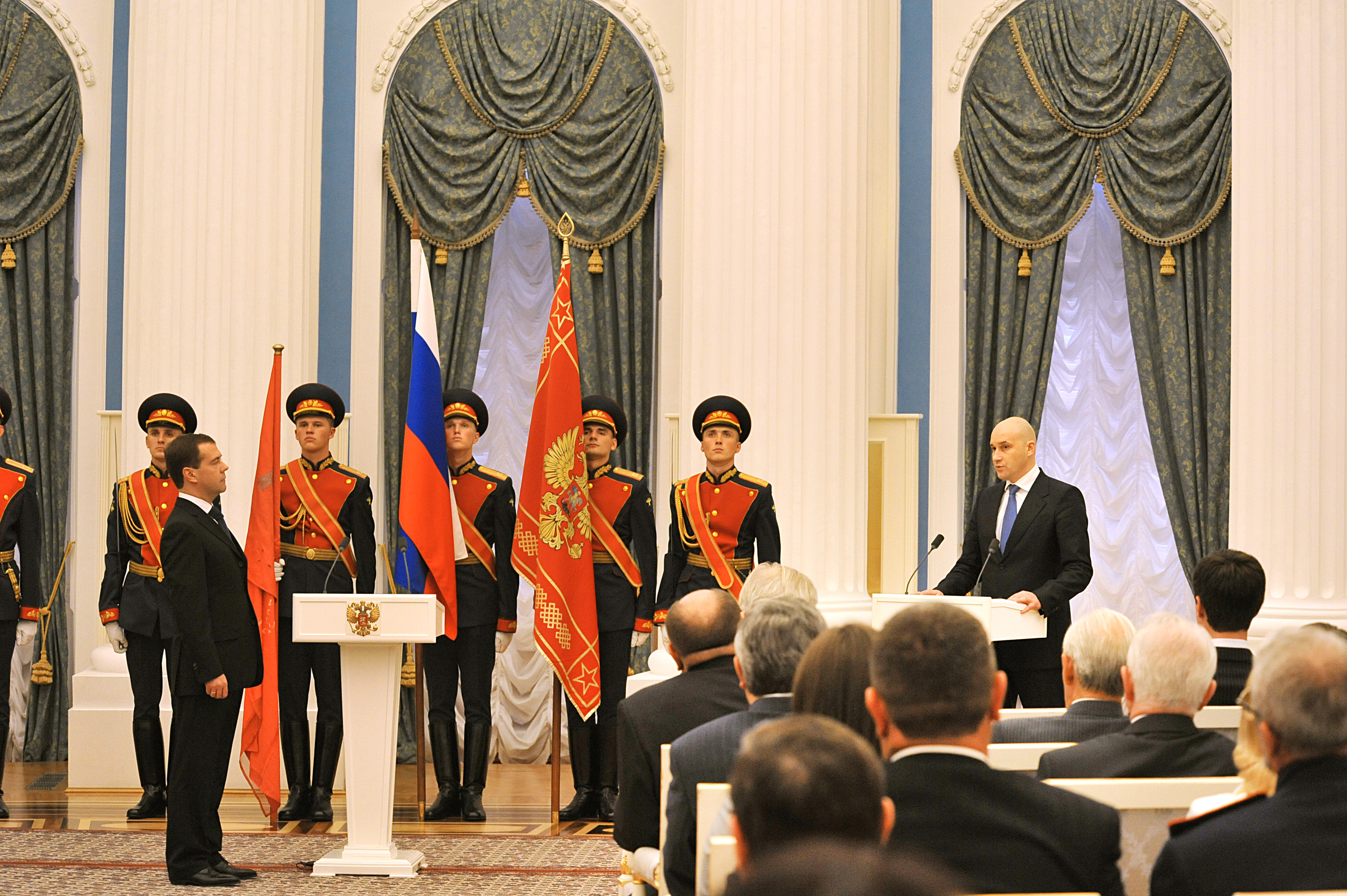 Патов Николай Александрович, глава города Брянска, выступает в Кремле на церемонии присвоения Брянску звания «Город воинской славы», 2010